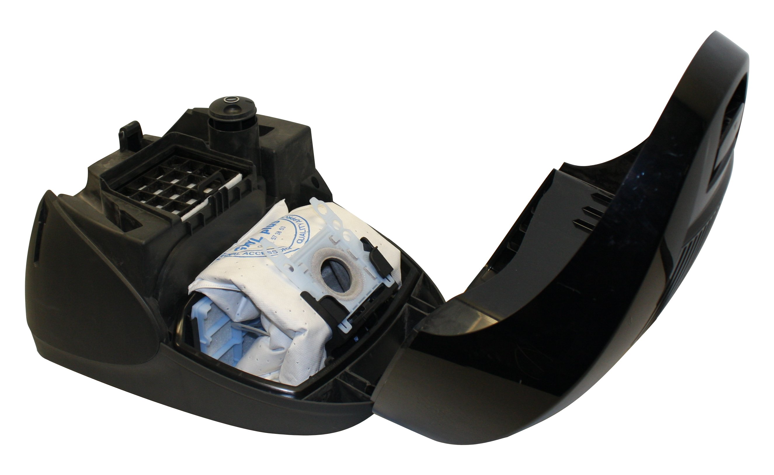 vacuum cleaner with bag, open (Siemens Z 3.0)